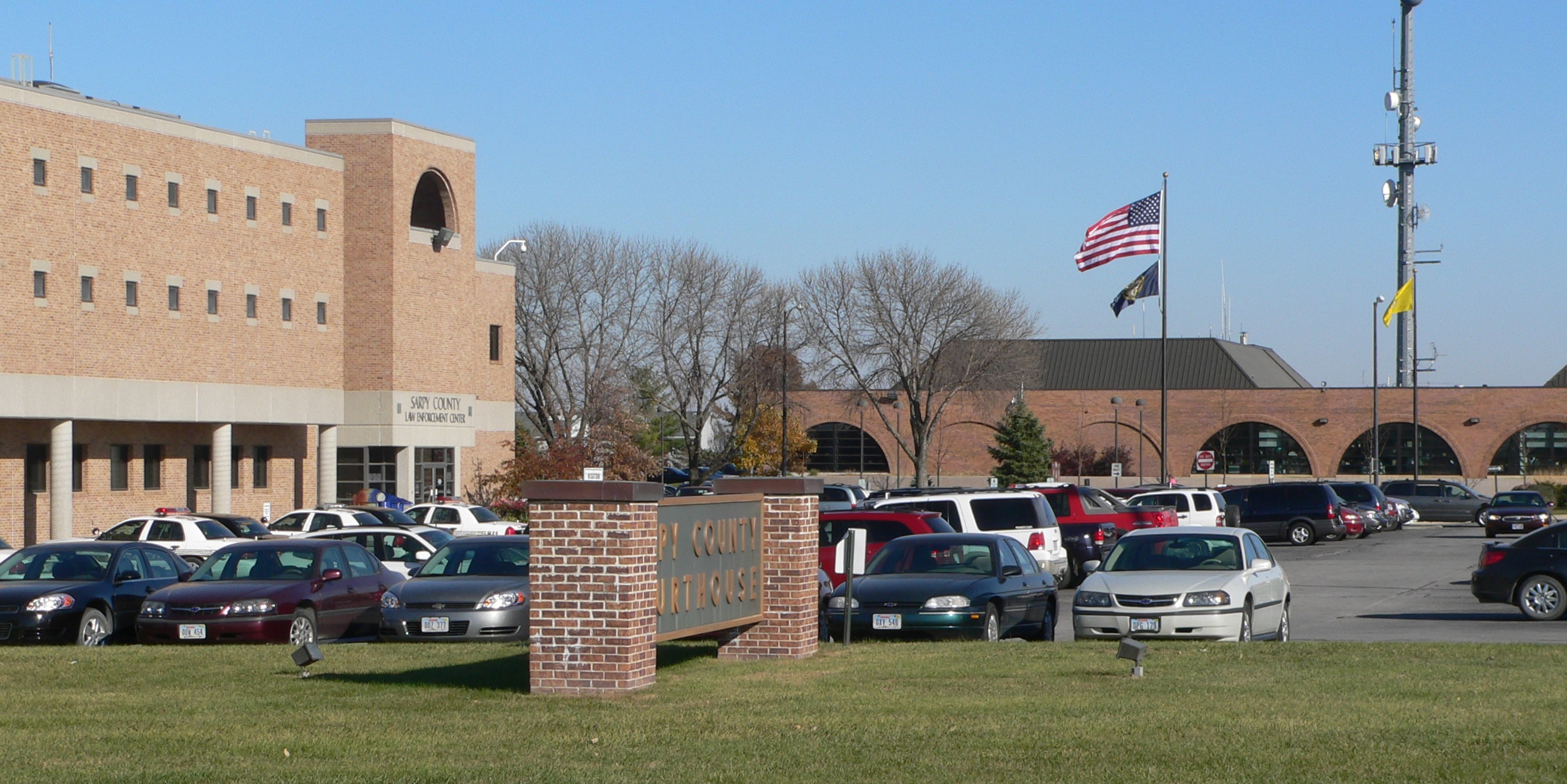 Sarpy County courthouse and jail in Papillion, Nebraska; seen from the west.